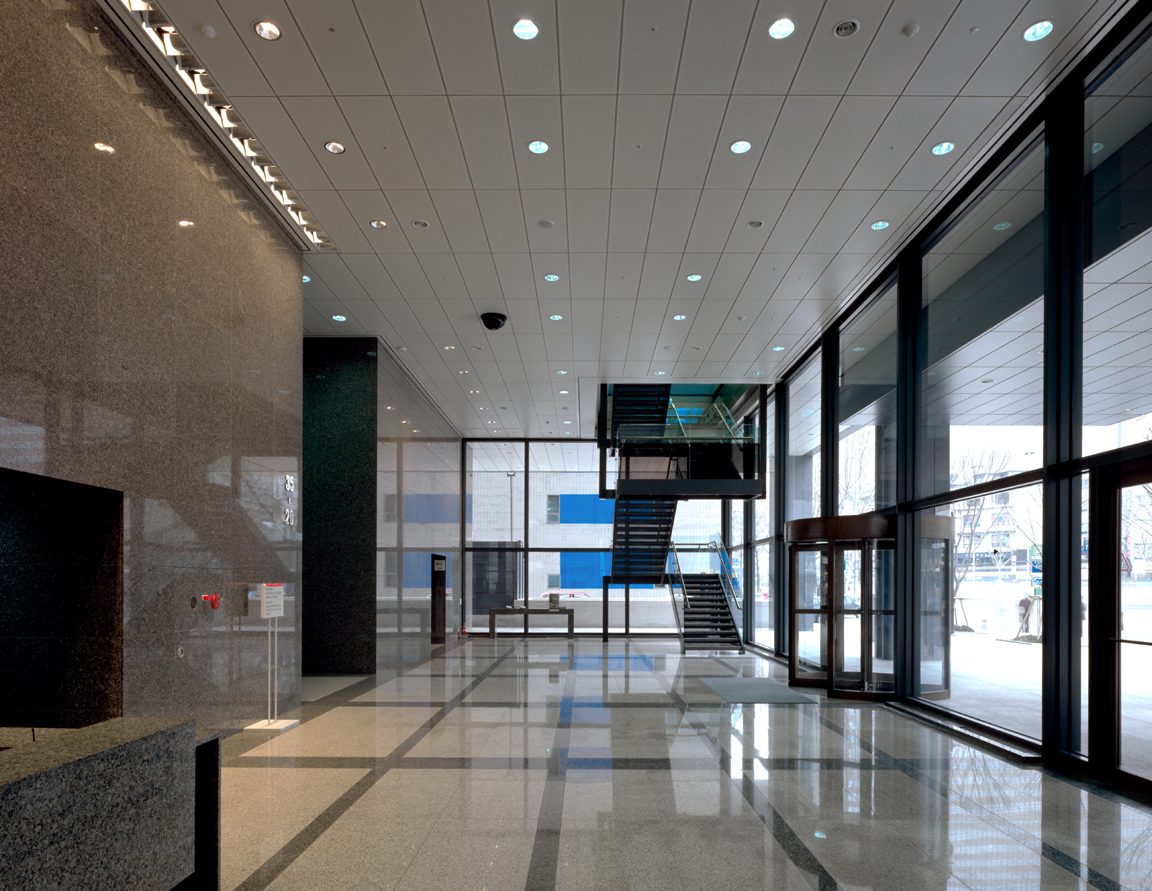 Seoul, SK Corporation Building, 1986-1999